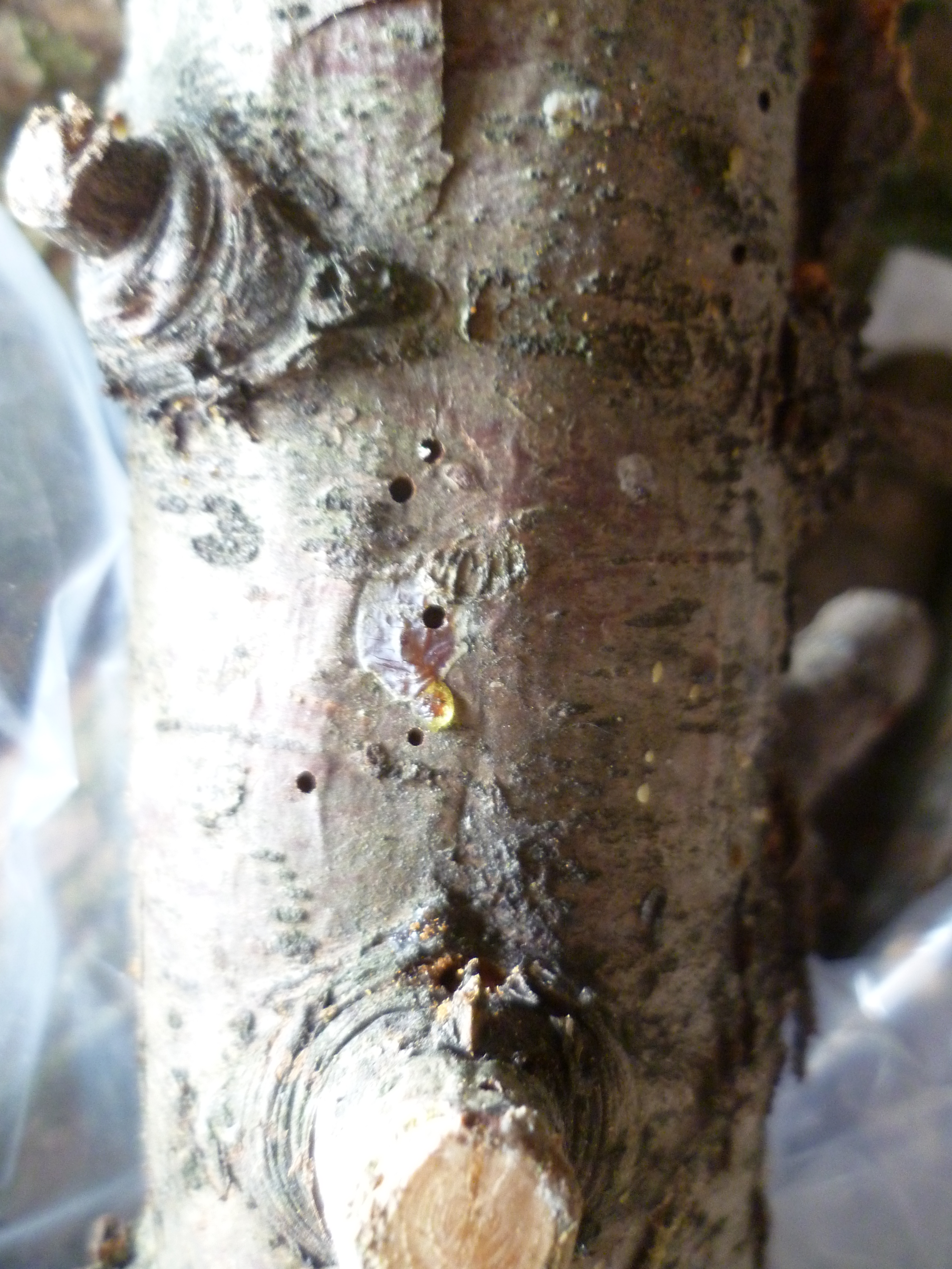 Picture taken in the CRA-ABP, Florence, Italy